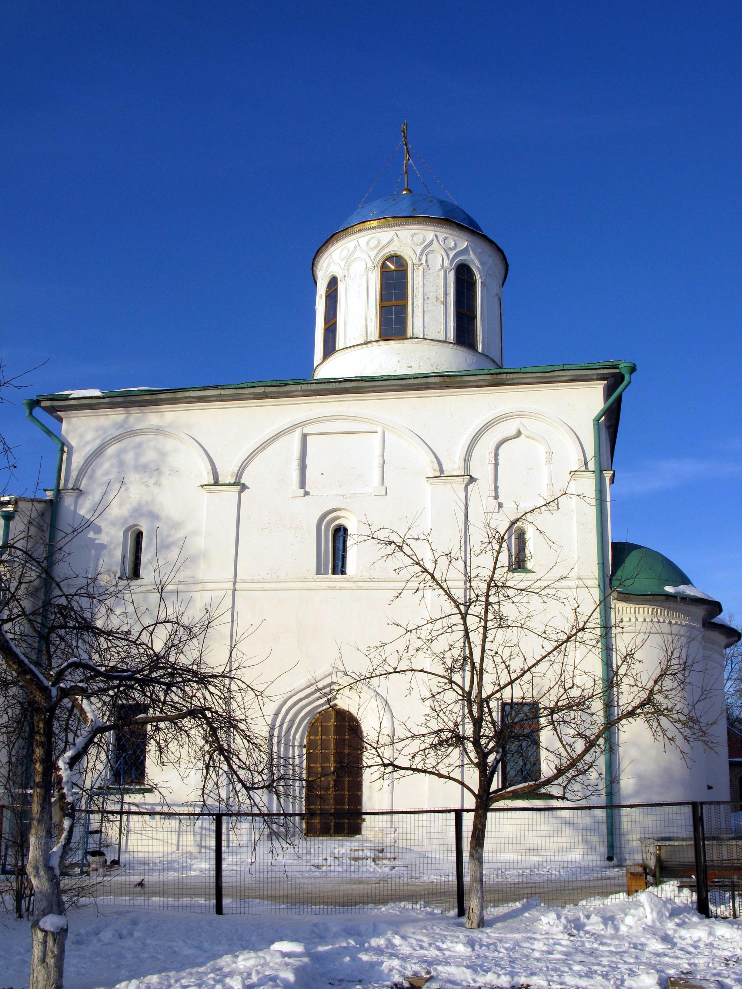 Church of the Nativity of the Theotokos (Volokolamsk)